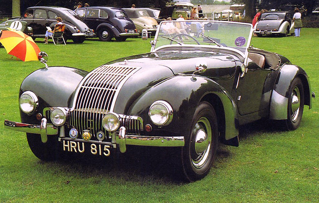 1949 Allard K1 roadster, with 3622 British Ford flathead V8